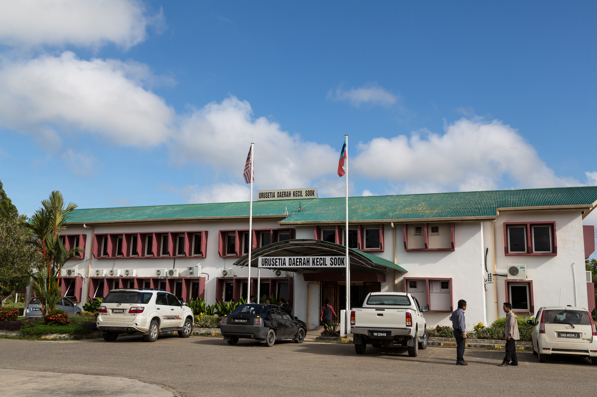 Sook, Sabah, Malaysia: Sook Subdistrict Office (Urusetia Daerah Kecil Sook)